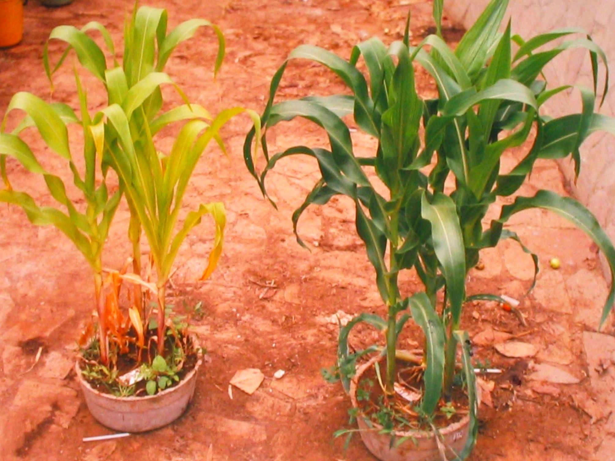 Urine treated in right. Photo by: Peter Morgan, Sept 2002. Harare.